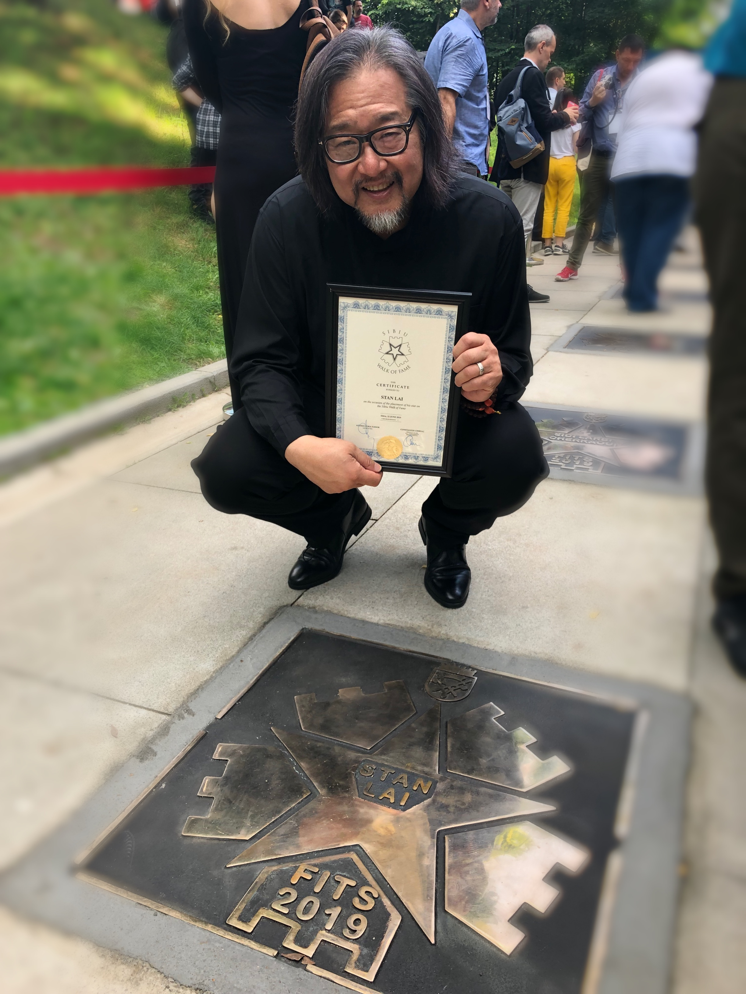 賴聲川獲頒羅馬尼亞錫比烏藝術節名人步道上一顆星 版权上剧场张淄涵2019年6月22日拍摄